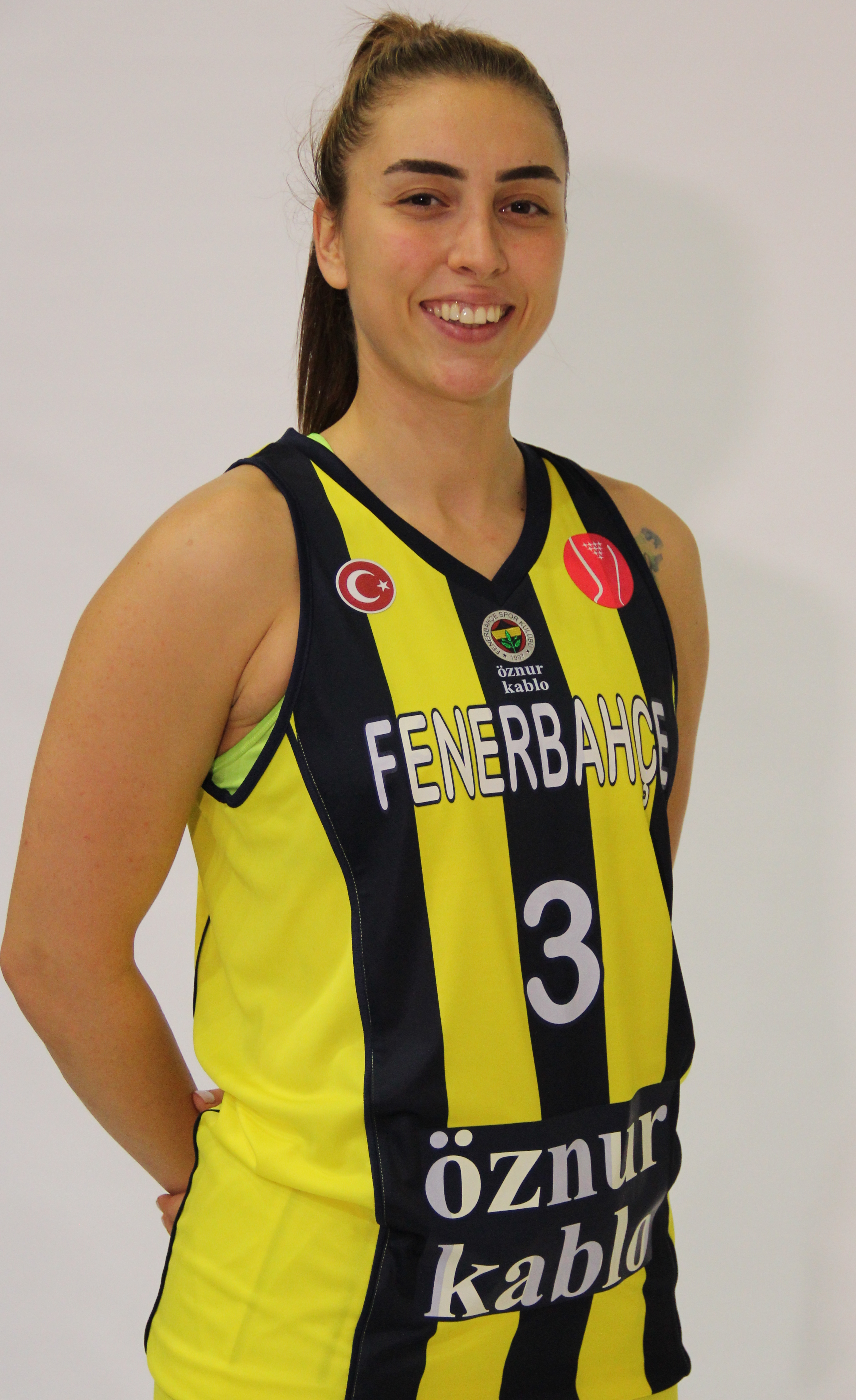 Ayşe Cora 3 Fenerbahçe Women's Basketball 20191031